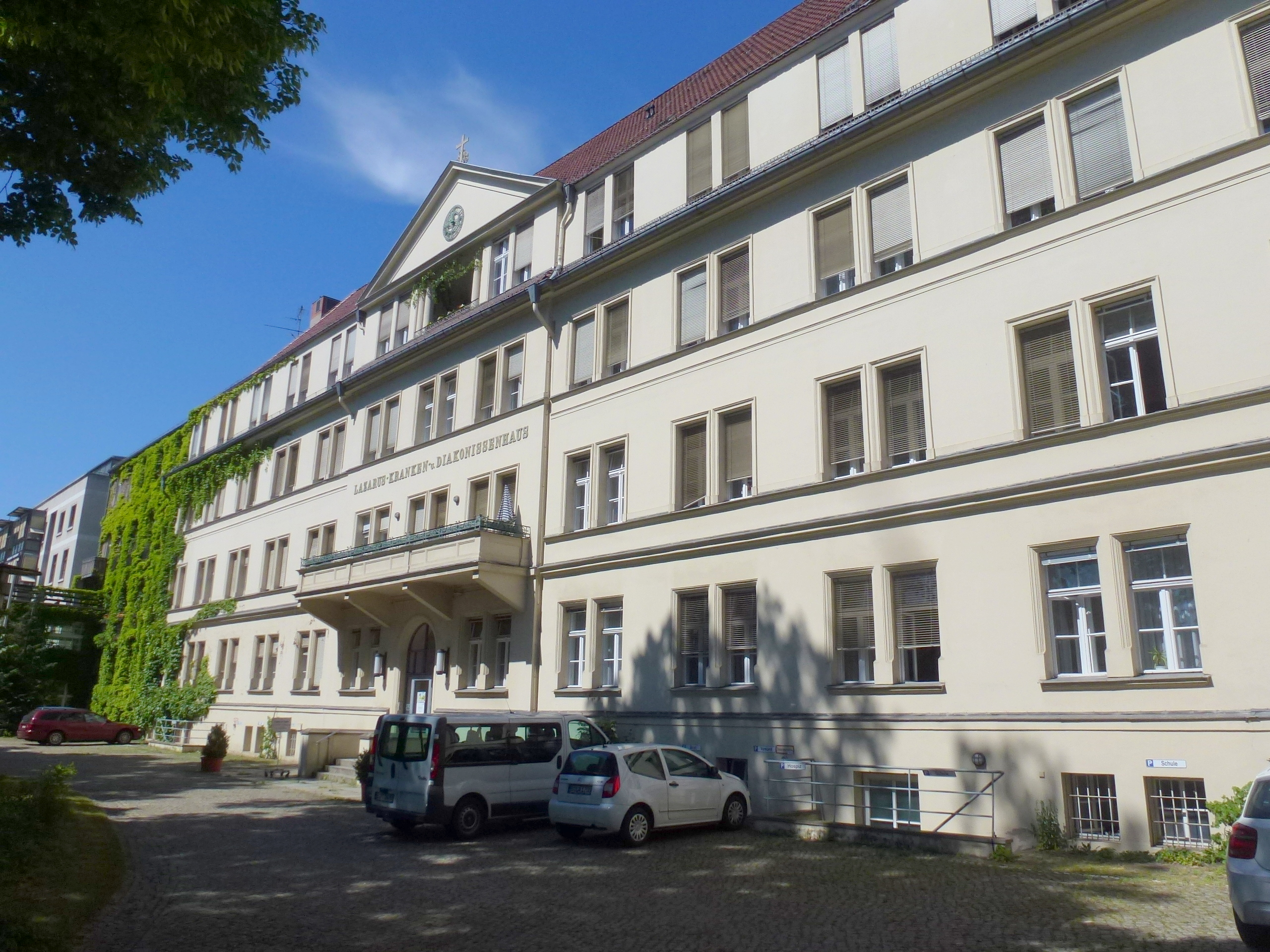 Berlin-Gesundbrunnen Lazarus-Krankenhaus